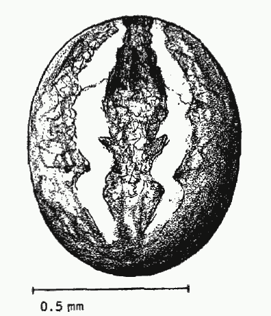 Theridion attritum (Theridiidae) female, dorsal abdomen.